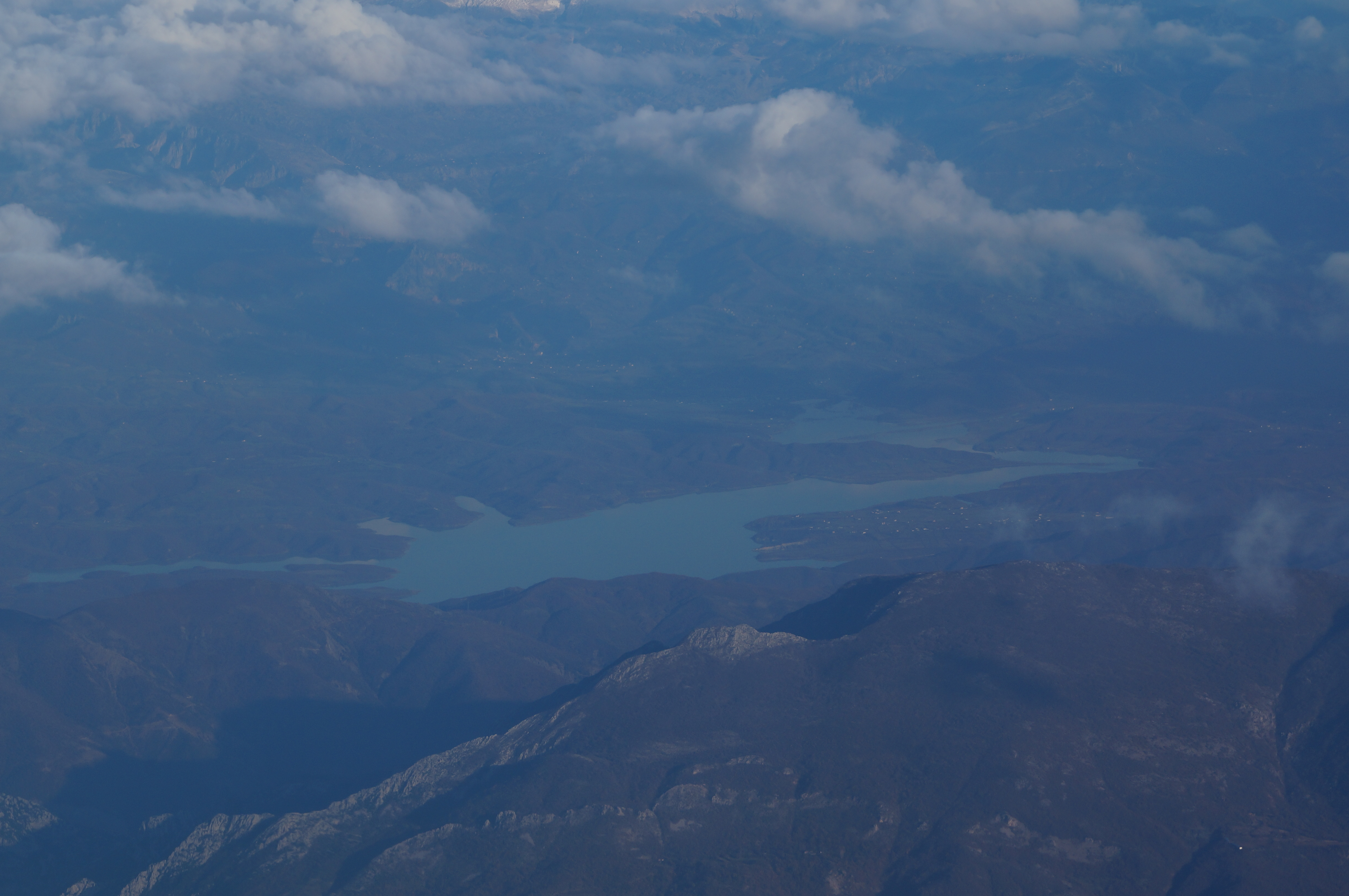 Lake Ulza and surroundings from the air